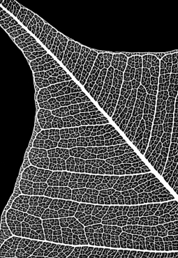 micrograph of a leaf skeleton , ( monochrome negative so resembles a photogram }.